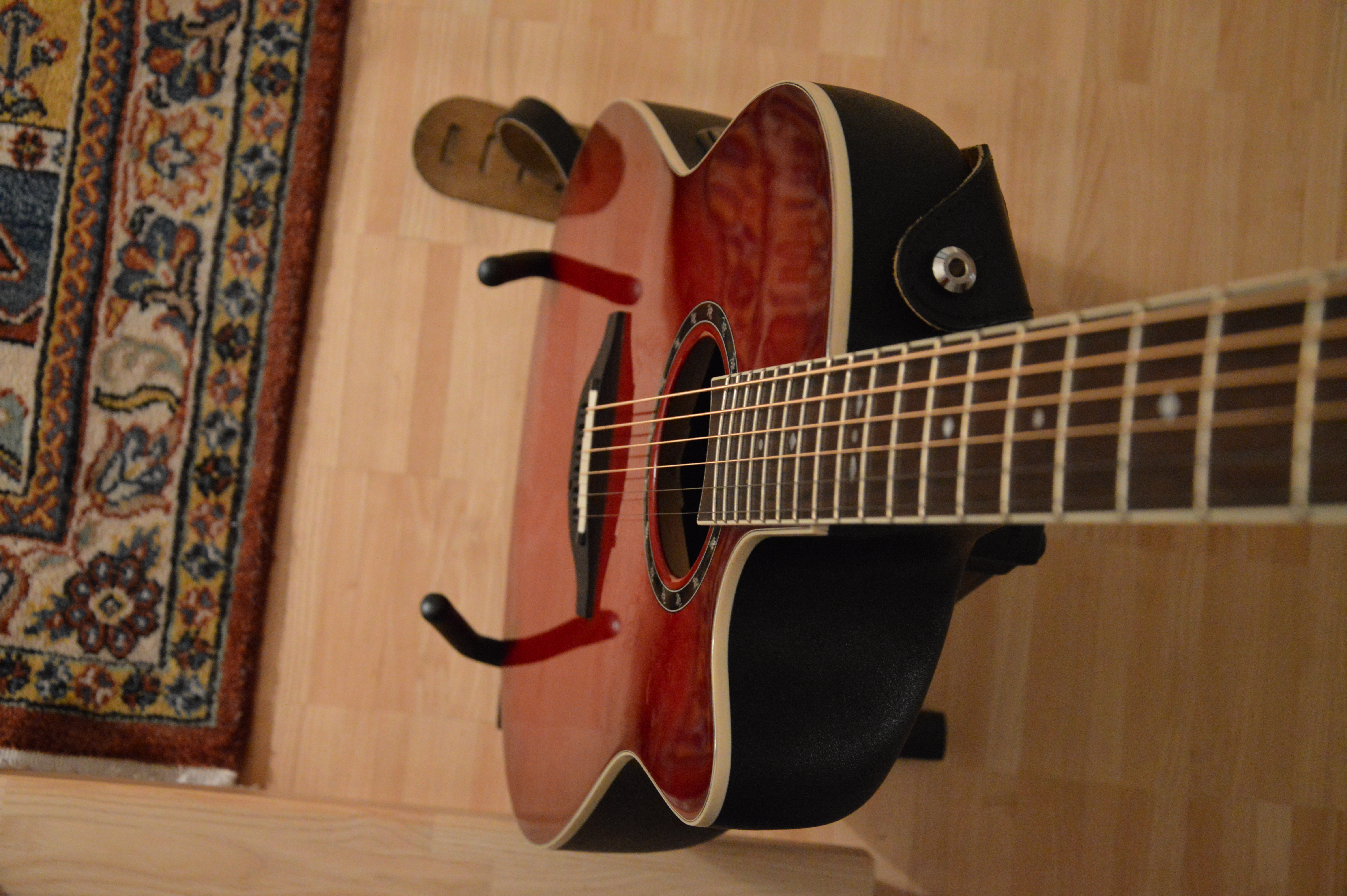 This is a view from my Ovation guitar